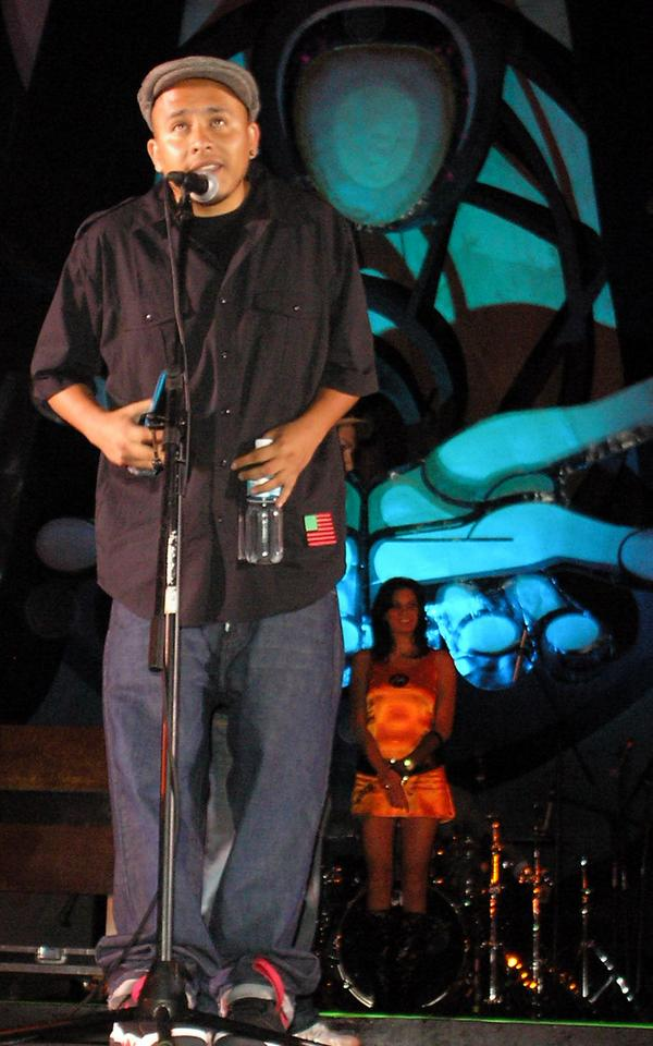 For the album El Manual de la Otredad Bocafloja was awarded Hip Hop Album of the Year 2008 by the Indie-O Awards in Mexico.